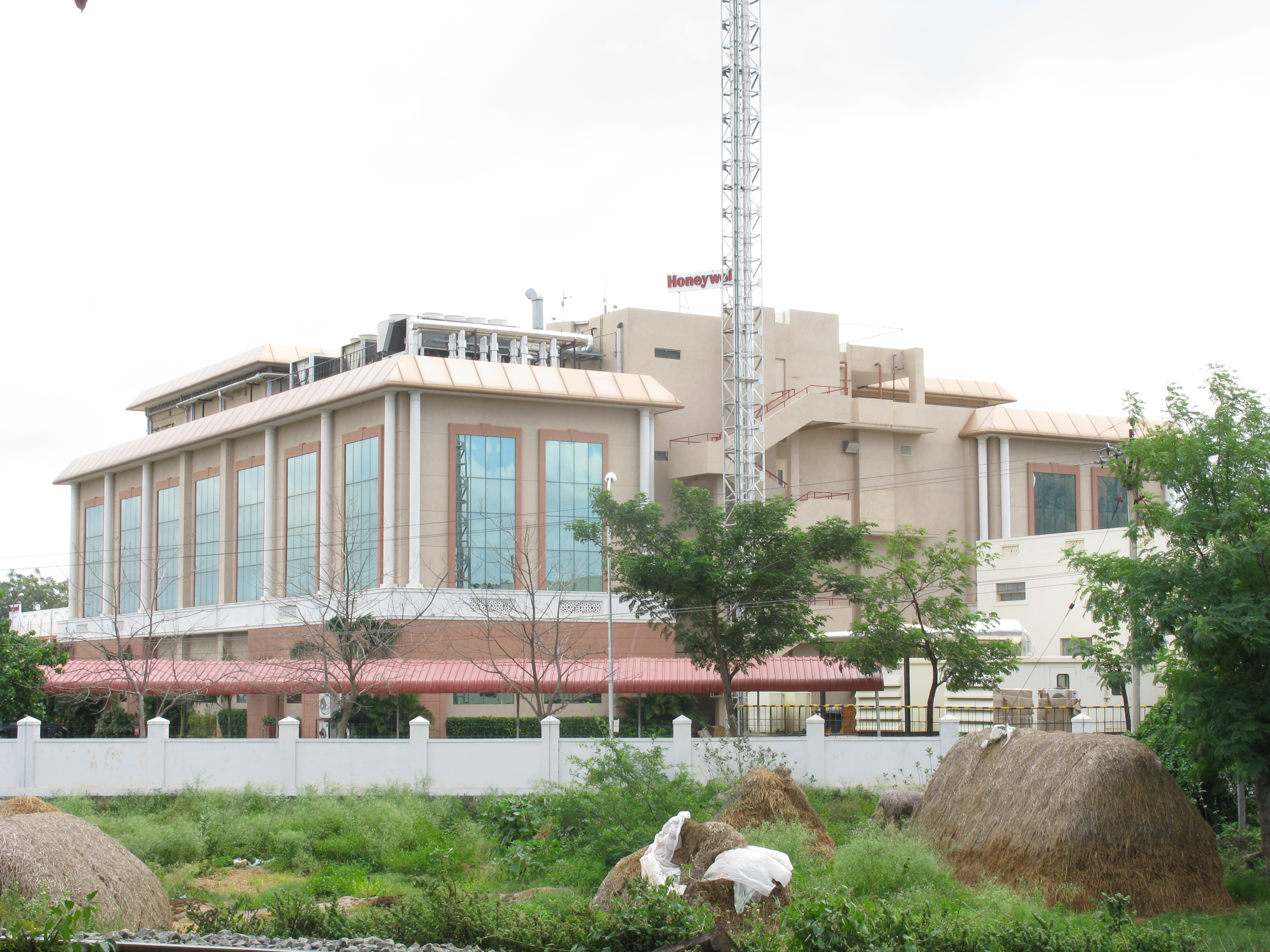 Honeywell Technology Solutions at Madurai